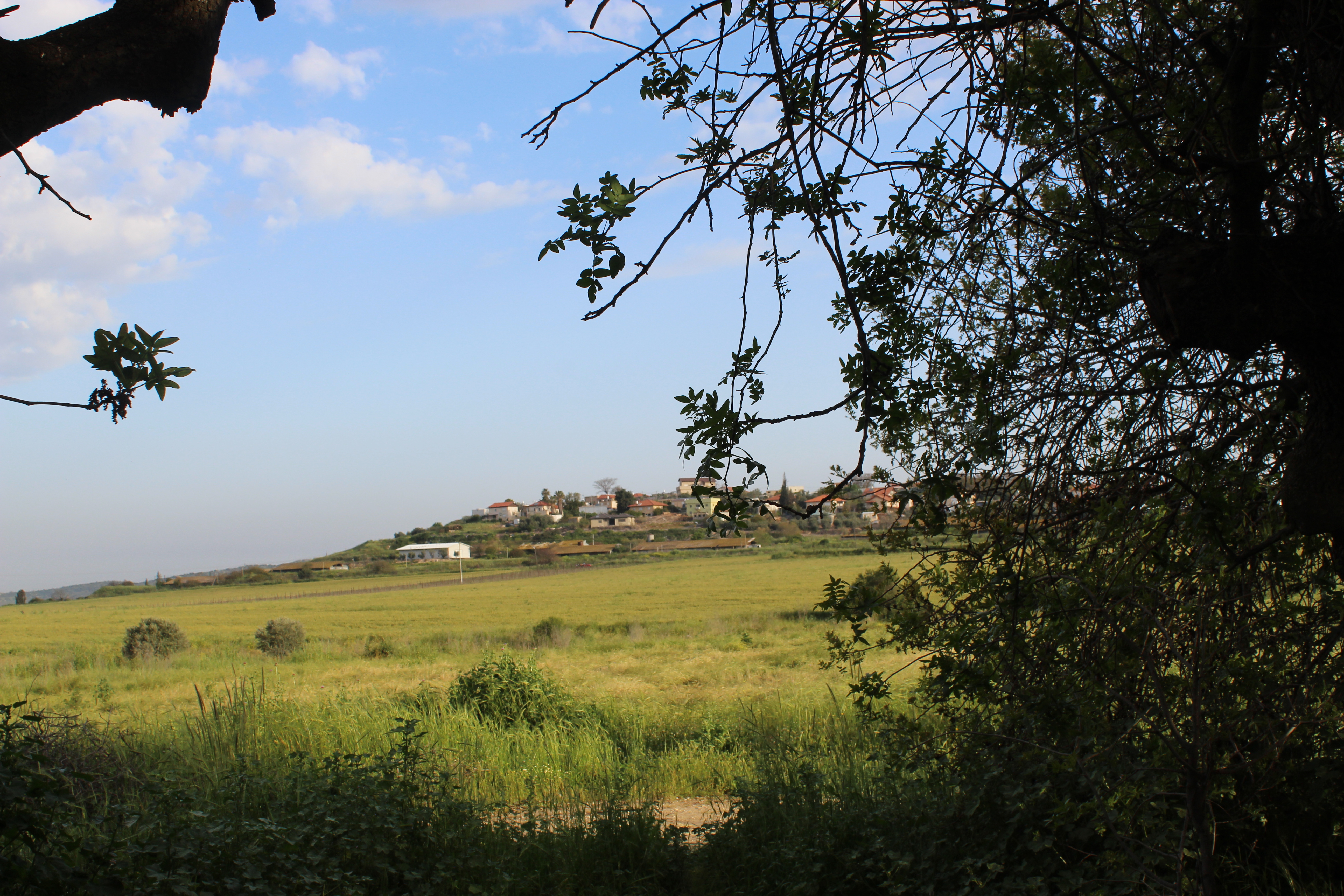 Israeli village Neve Michael (Roglit) as seen from a ripening field of wheat